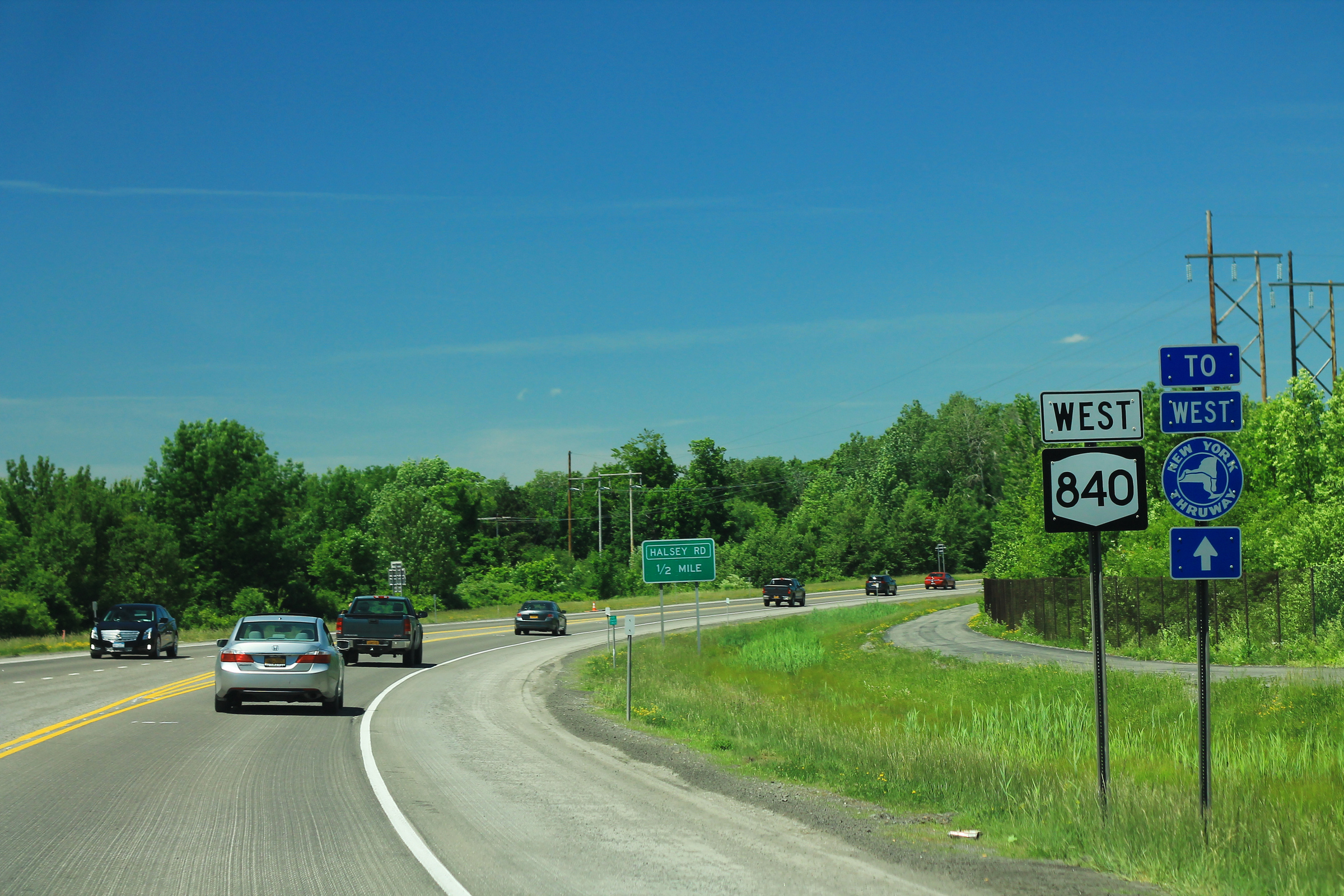 NY840 West to West Thruway Signs